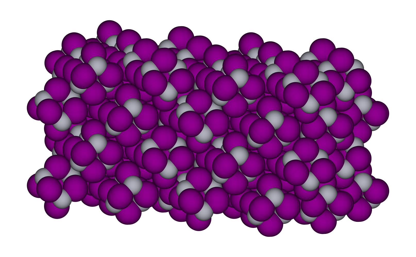 Space-filling model of part of the crystal structure of Mercury(II) iodide, HgI2. X-ray crystallographic data from Acta Cryst. (2002). B58, 914-920.